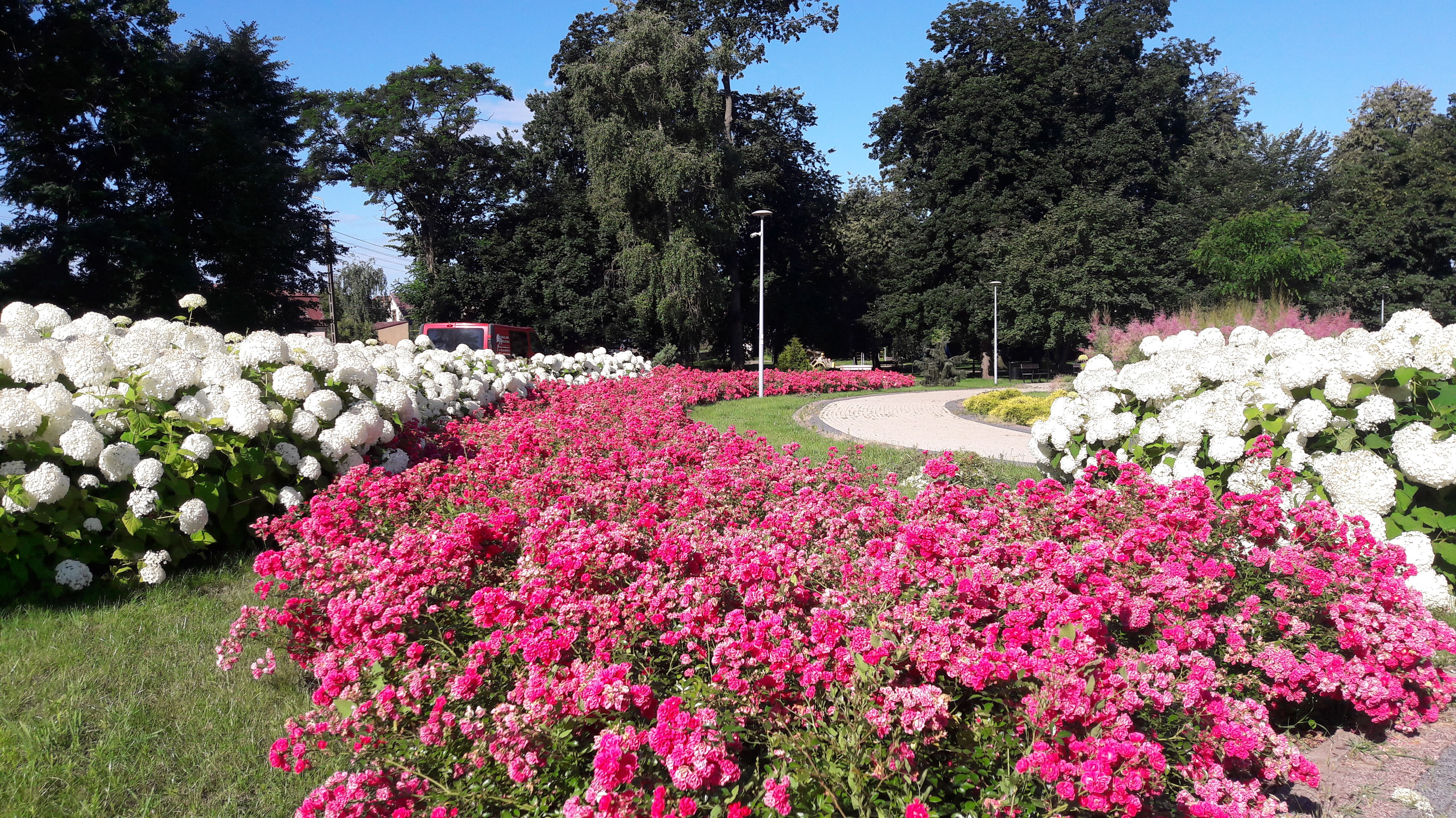 Szpalery kwiatów